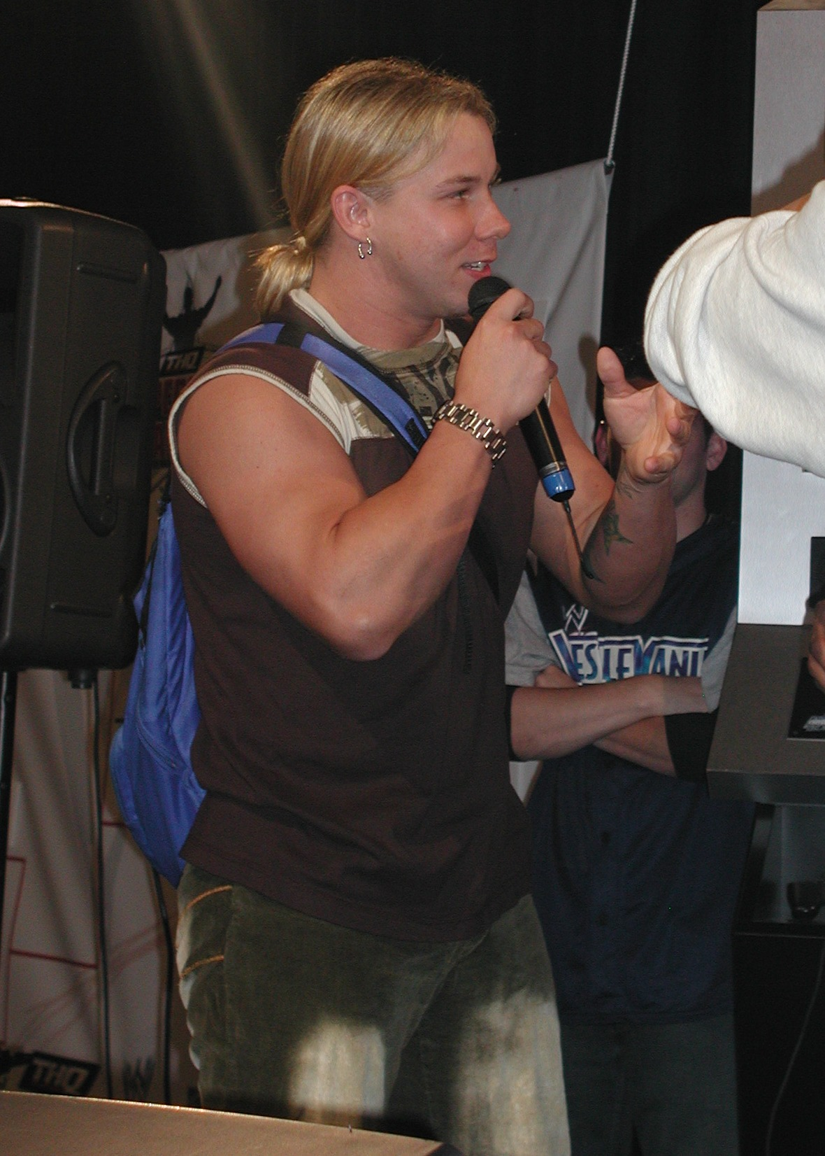 Shannon Moore at WWE Fan Axxess. Seattle, WA, March 2003.